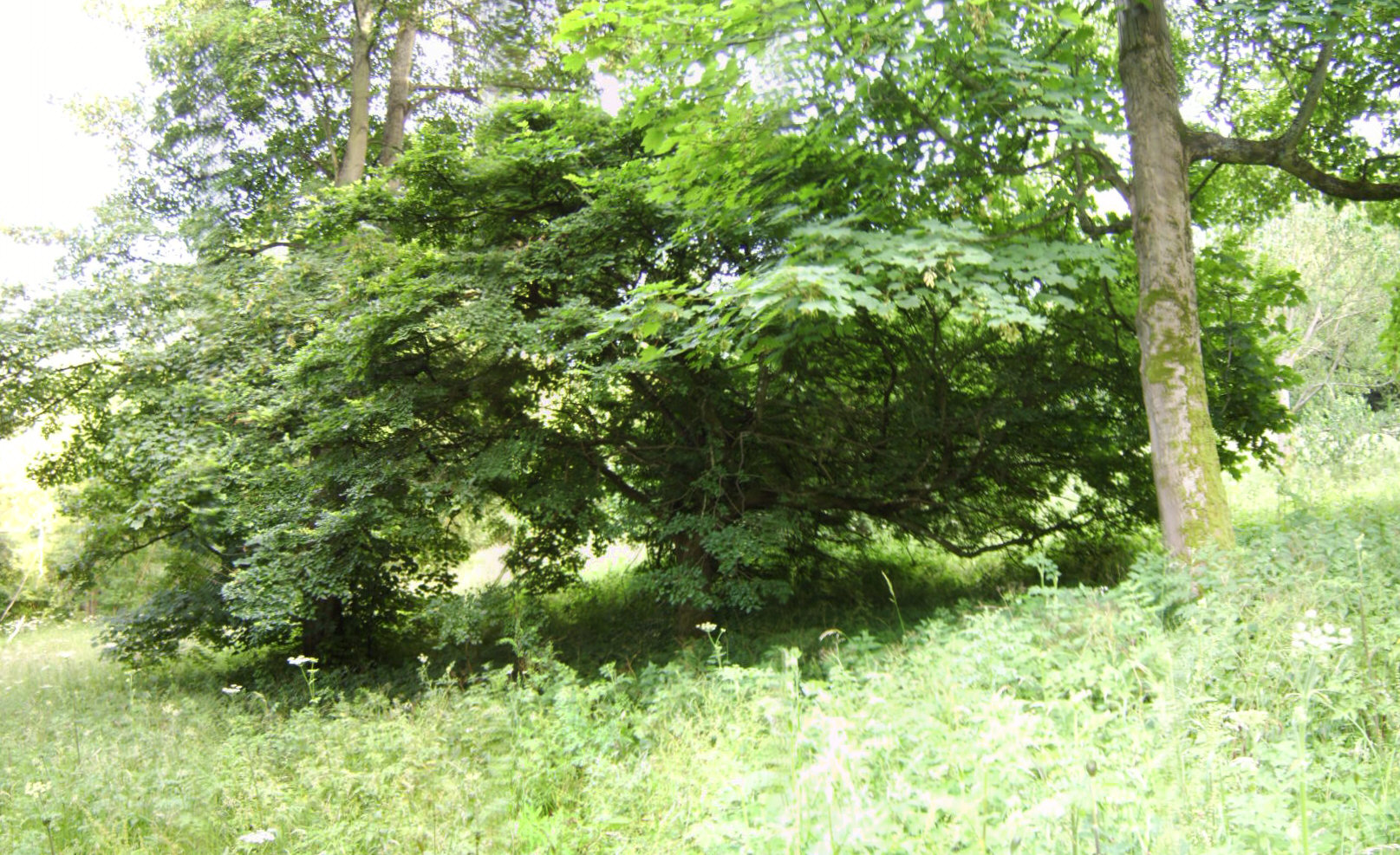 (see title)